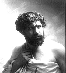 portrait of French opera singer Lucien Muratore (1876-1954) as Hercules in "Déjanire" by Camille Saint-Saëns